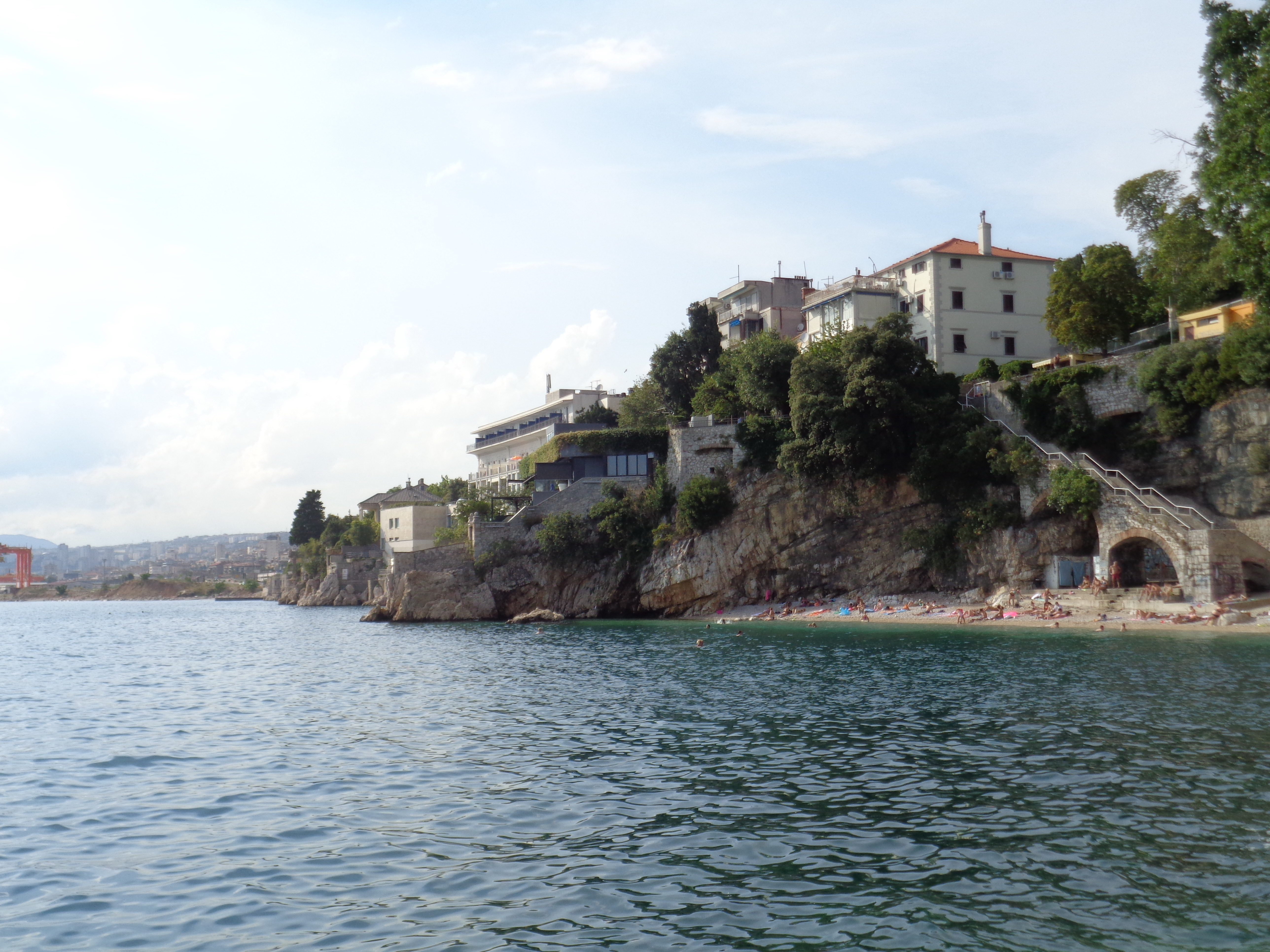 Rijeka, Primorje-Gorski Kotar County, Croatia - Part of the Pećine city district